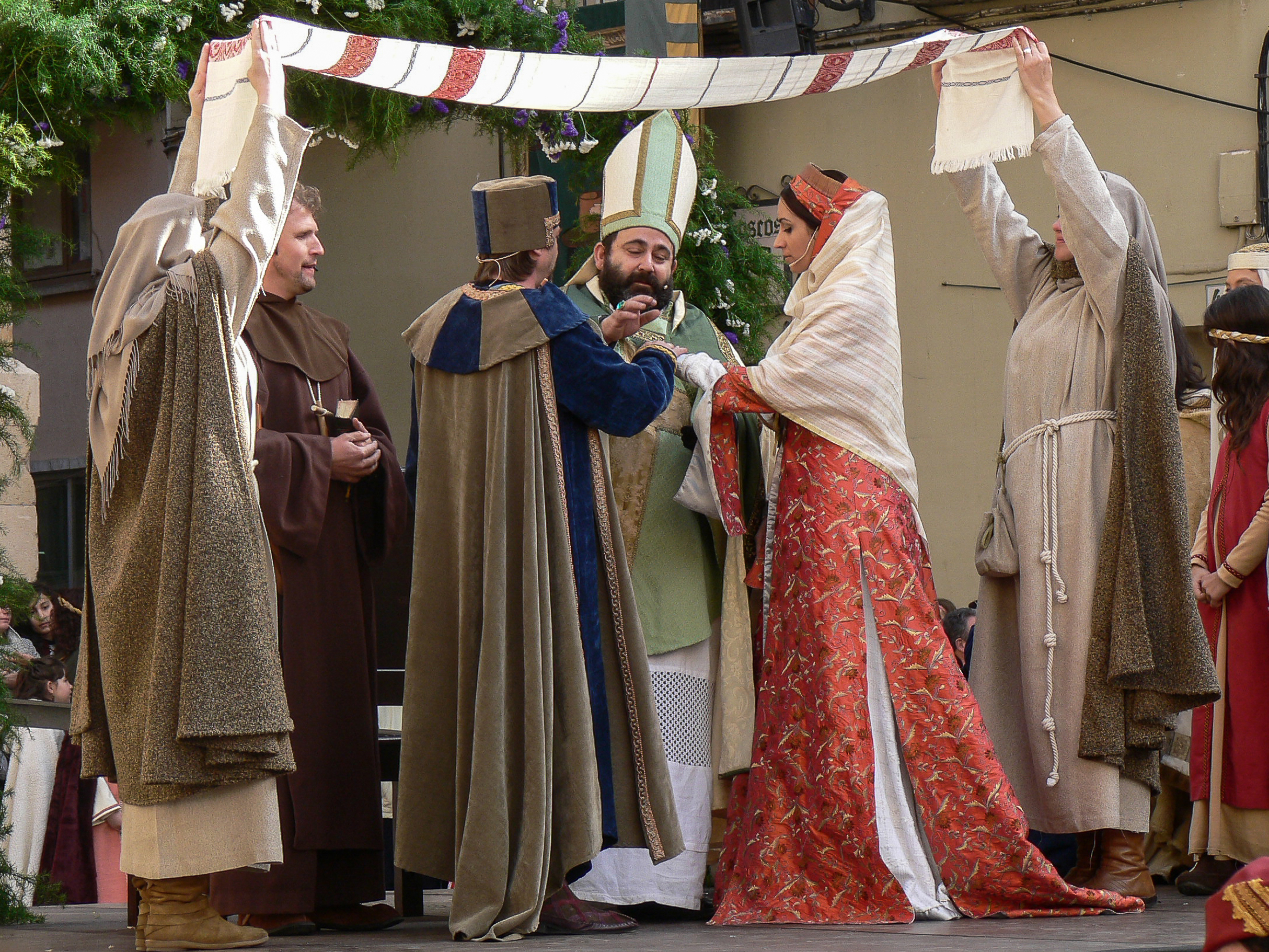 This is a photography of a Folklore festival in Spain (Wikidata id Q23657061).